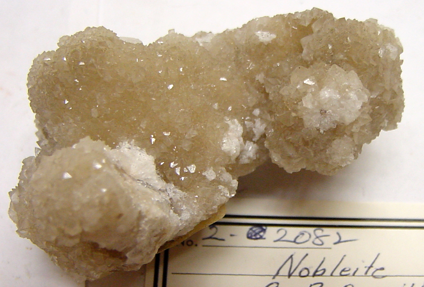 Nobleite. Collected by Robert Herod, 1988, from Death Valley, Inyo County, California. Mineral collection of Bringham Young University Department of Geology, Provo, Utah. Photograph by Andrew Silver. BYU index 2-2082, CaB_6O_9(OH)_2 x 3(H_2O).